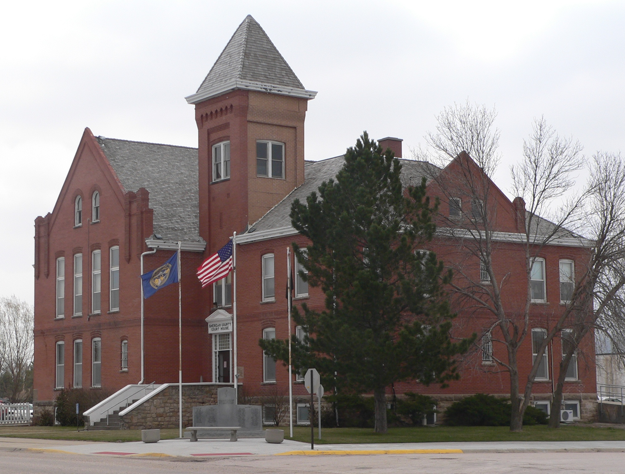 Sheridan County, Nebraska courthouse in Rushville, Nebraska: seen from the northwest.